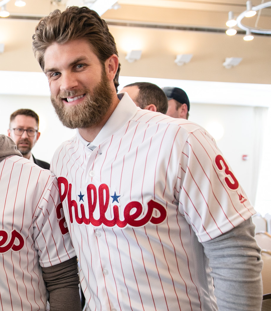 Pennsylvania governor Tom Wolf, Philadelphia Phillies outfielder Andrew McCutchen and Philadelphia Phillies outfielder Bryce Harper in Philadelphia in 2019